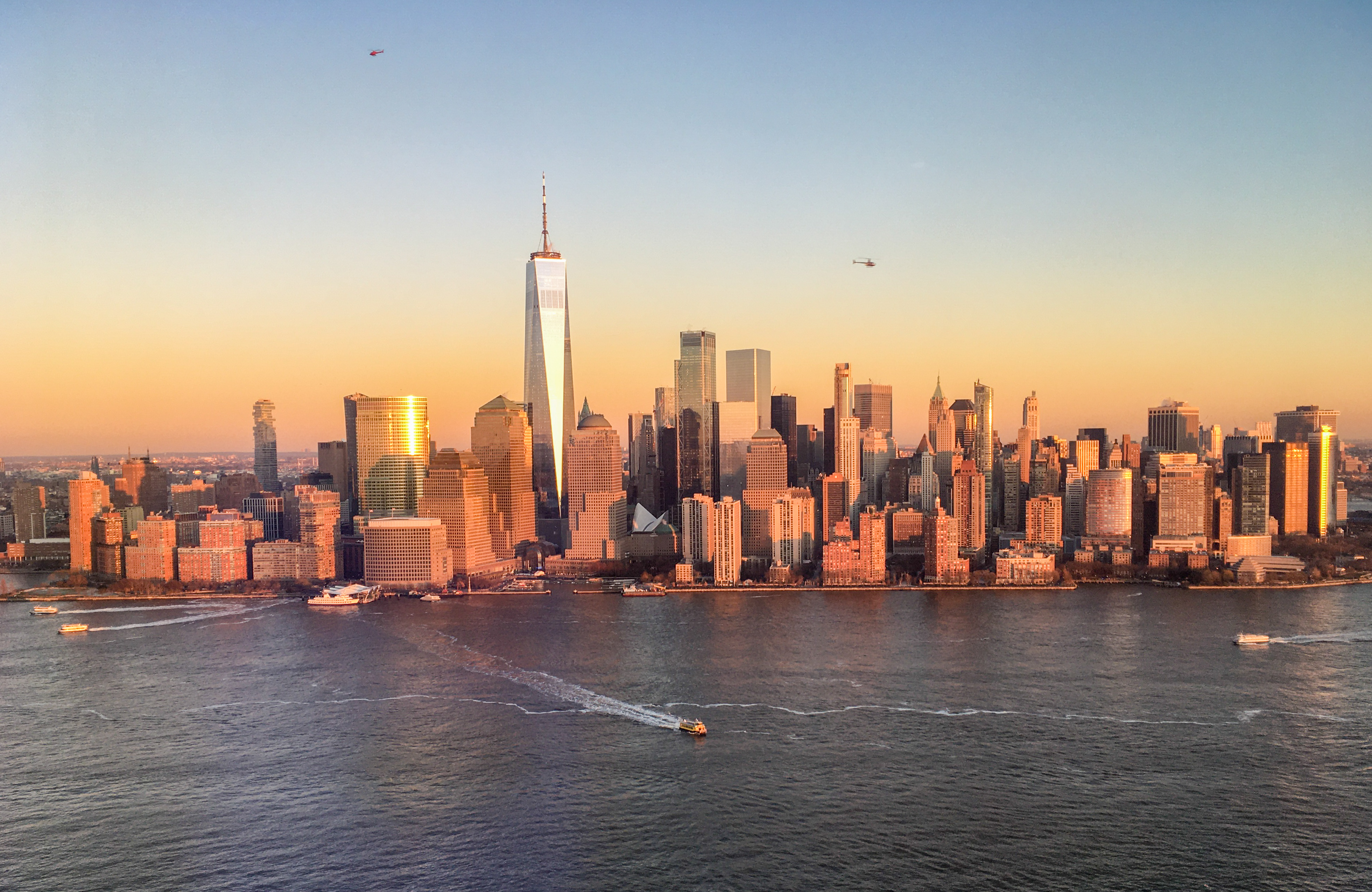 Downtown Manhattan Skyline seen from Paulus Hook showing various ferry services departing the Battery Park City ferry terminal, and helicopters flying above the city.